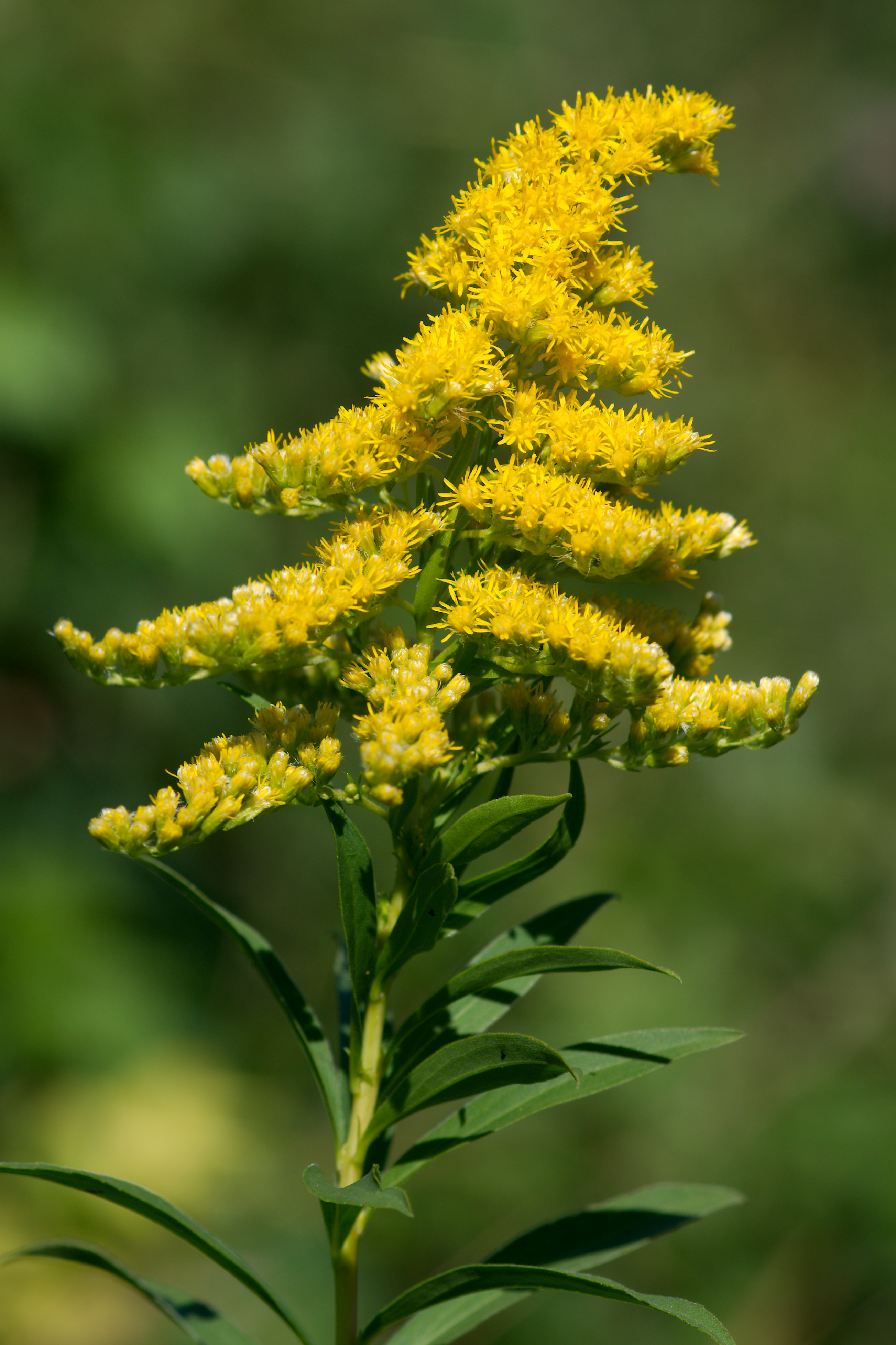 Giant goldenrod